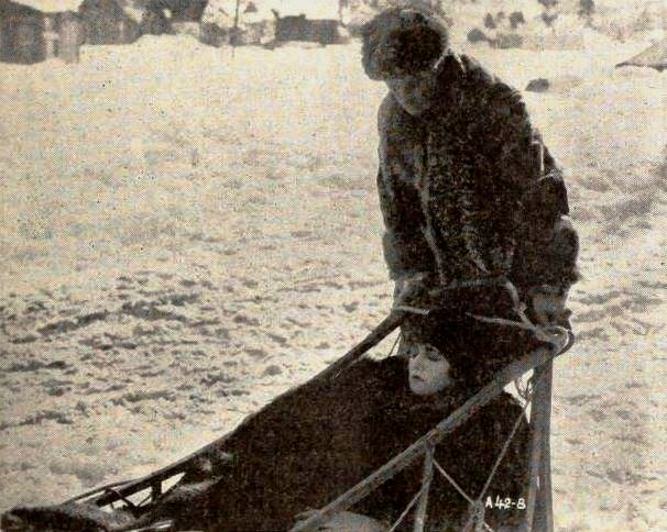 Still from the American drama film Shark Monroe (1918) with William S. Hart and Katherine MacDonald, on page 35 of the July 27, 1918 Exhibitors Herald.